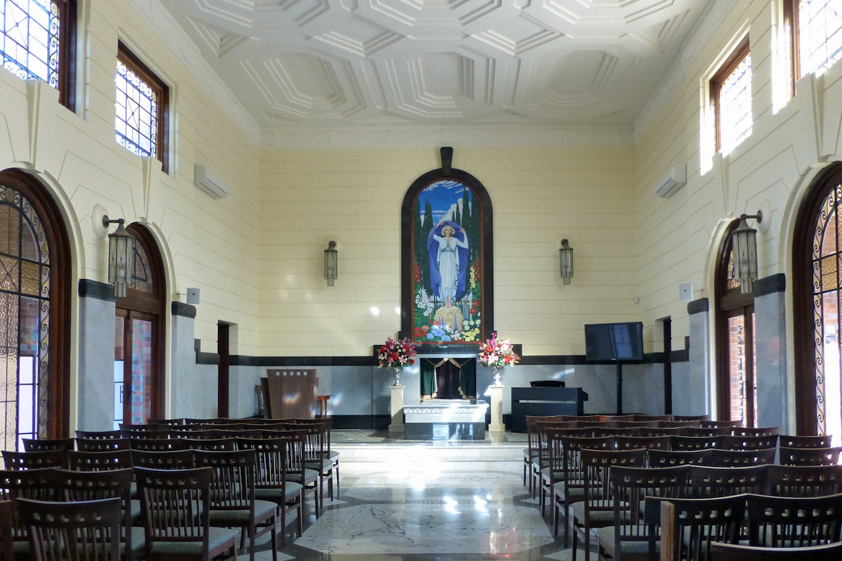 The renovated (2008) West Chapel interior. The mural is a reproduction by Scott Christensen of Awakening from death (aka Lifting the veil of convention) by William Bustard (1934). Mount Thompson Memorial Gardens & Crematorium (formerly Brisbane Crematorium [1934]) 329 Nursery Road, Holland Park, Brisbane, Queensland 4121